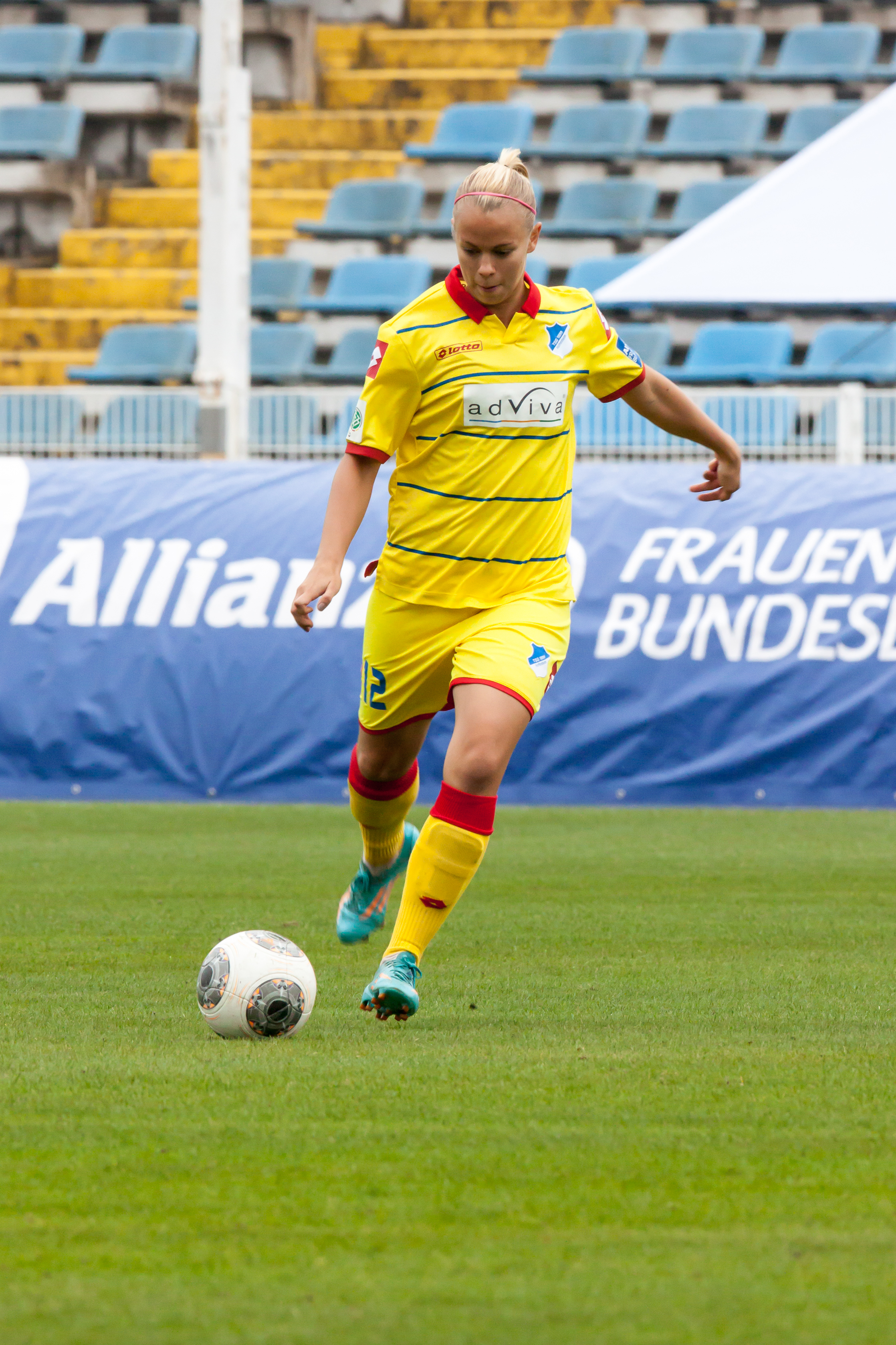 German Women Bundesliga soccer game: FF USV Jena vs. TSG 1899 Hoffenheim, 2014-10-11, at Ernst-Abbe-Sportfeld Jena.